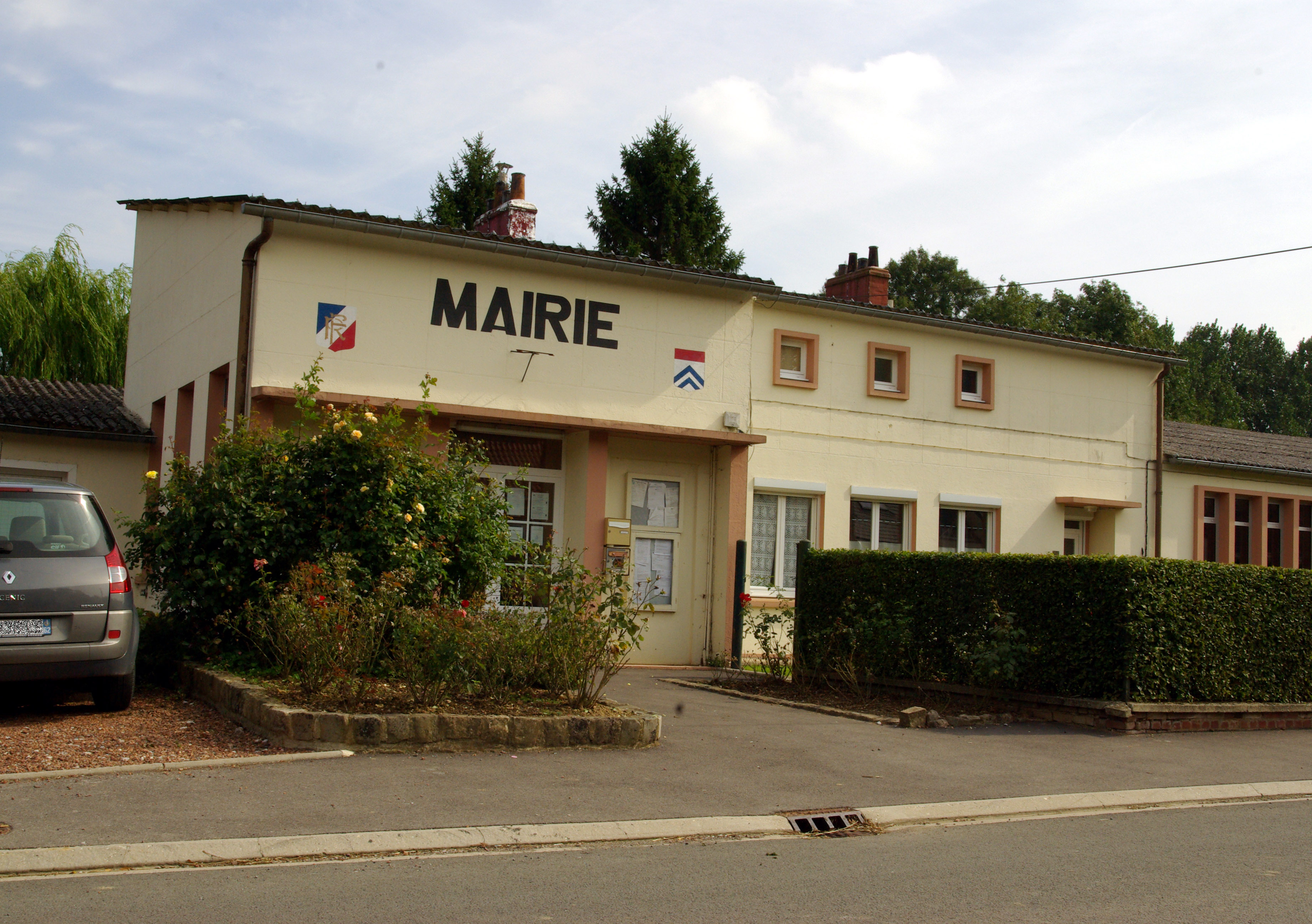 City Hall Croix-en-Ternois